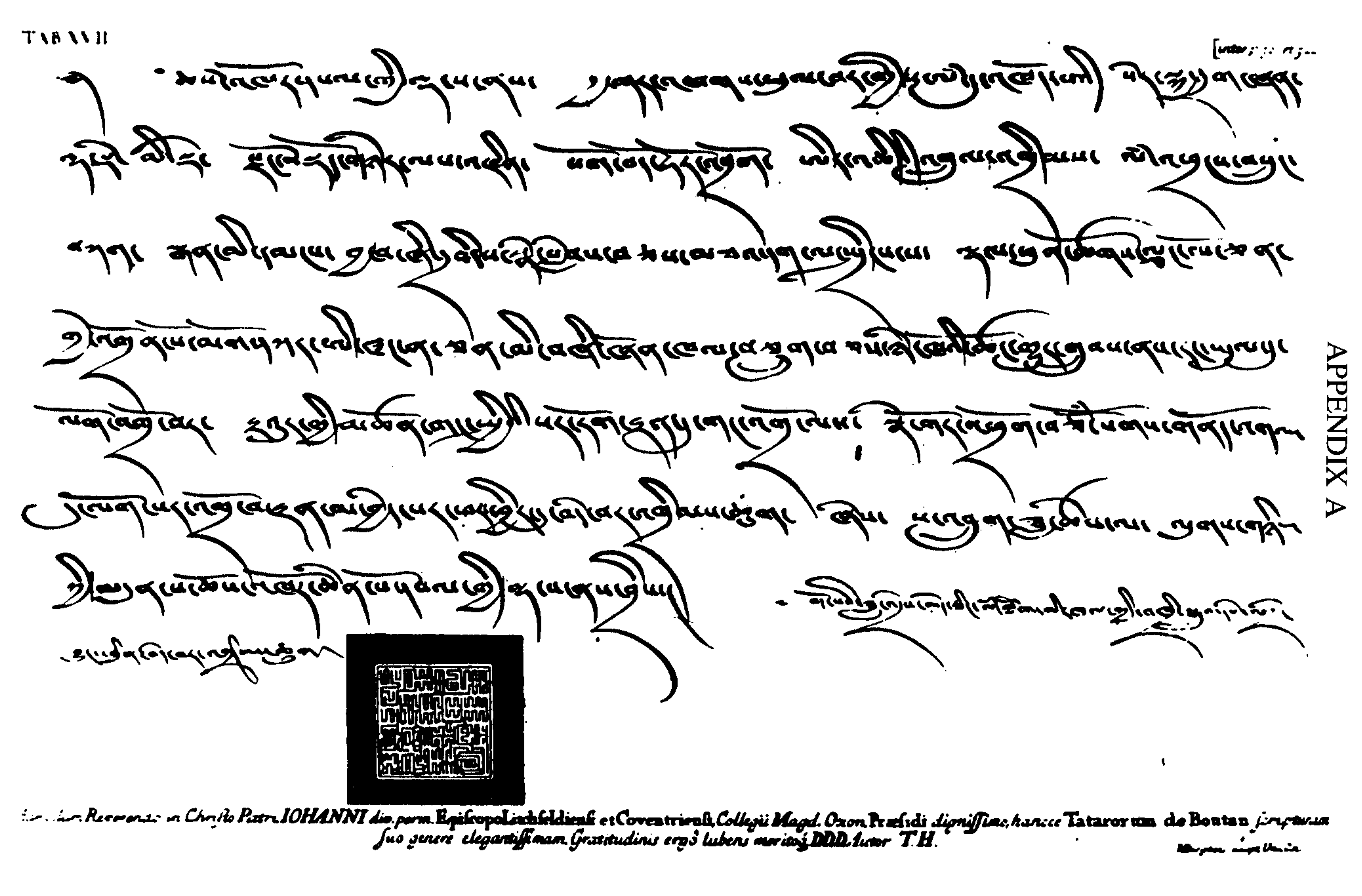 Tibetan Passport for Armenian merchant Master Johannes(I-wang-na) issued in 1688 AD. Engraving published by Thomas Hyde in Historia religionis veterum Persarum(1700). English translation by Csoma de Körös, with modifications by Turrell V. Wylie: From noble (city) Lhassa, the Wheel of Dharma. — To those that are on the road as far as Arya Desa or India, to noble, ignoble (i.e. strong or weak), monastic communities, lay communities; to residents in forts, stewards, managers of affairs, to Mongols, Tibetans, Turks, and to nomads; to ex-chis (or el-chis, envoys, or public messengers, vakils or ambassadors, &c.) going to and fro ; to keepers and precluders of bye-ways (or short-cuts) ; to the elder (or head) men, subjects, all those charged with the responsibility of civil and military affairs; to all these is ordered (or is made known). These four, guests of Phun-tshogs Lcang-lo-can in Lhassa, white-headed(European fathers of the Catholic faith) I-wang-na-can, after having exchanged their merchandize, going back to their own country, having with them sixteen loads on beasts; wherever they go, always assist them there with whatever (they need), with compulsory horse (transport) as the (principal) example — do not hinder, rob, plunder, et cetera, them; but let them go to and fro in peace. Thus has been written from the noble Lhassa, the Wheel of Dharma, from the secretariat of both ecclesiastical and civil affairs, in earth-dragon year (in the year of Tibetan calendar, which is 1688 AD). On the day of the month. (These dates are wanting). Note. — There is no Tibetan joined with them. They have about a man's load of victuals wrapped up in a bundle; with that there has been made an increase (of packages), but let them go in peace.